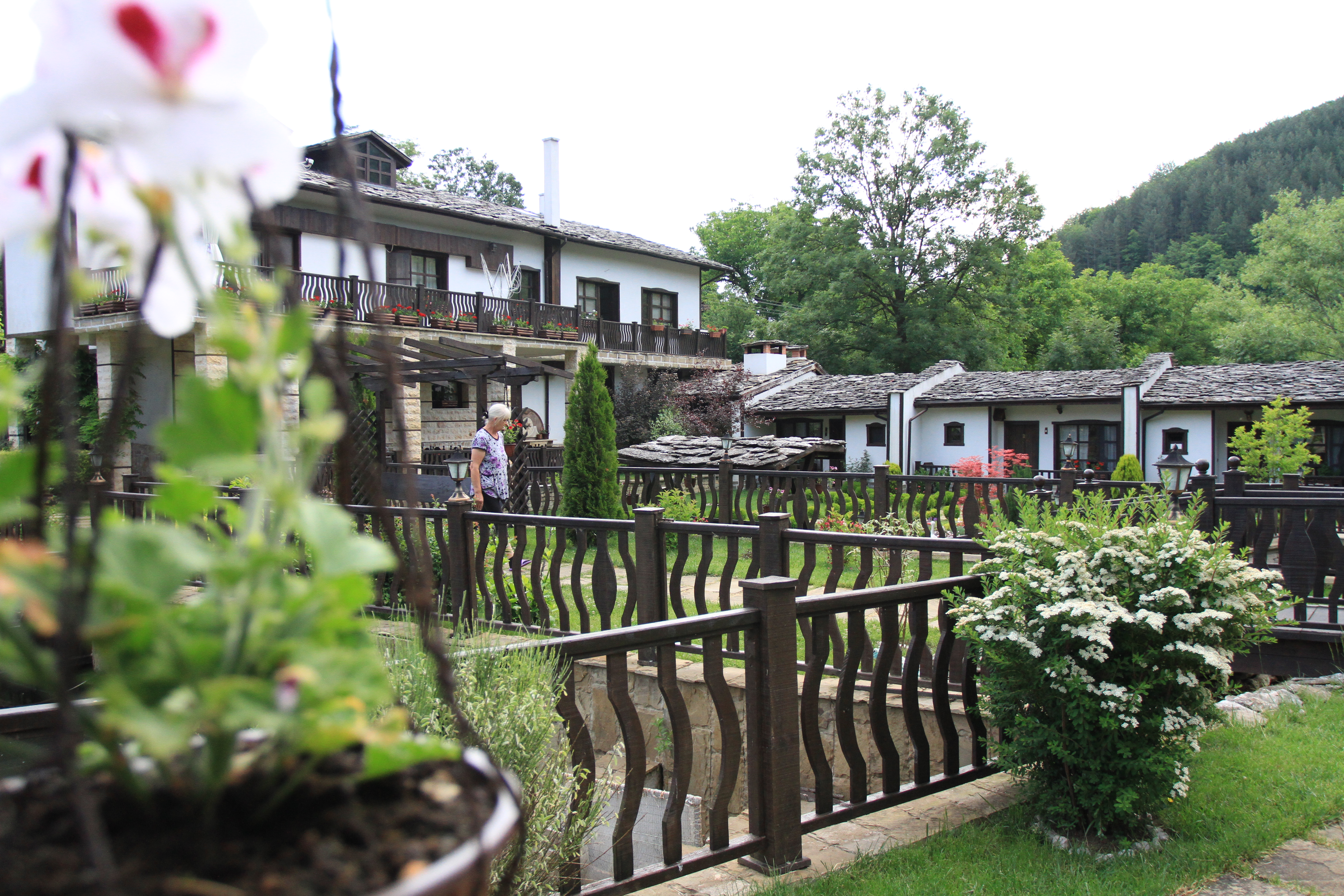 Guest house PEKLUK, Galabovtsi, Bulgaria.